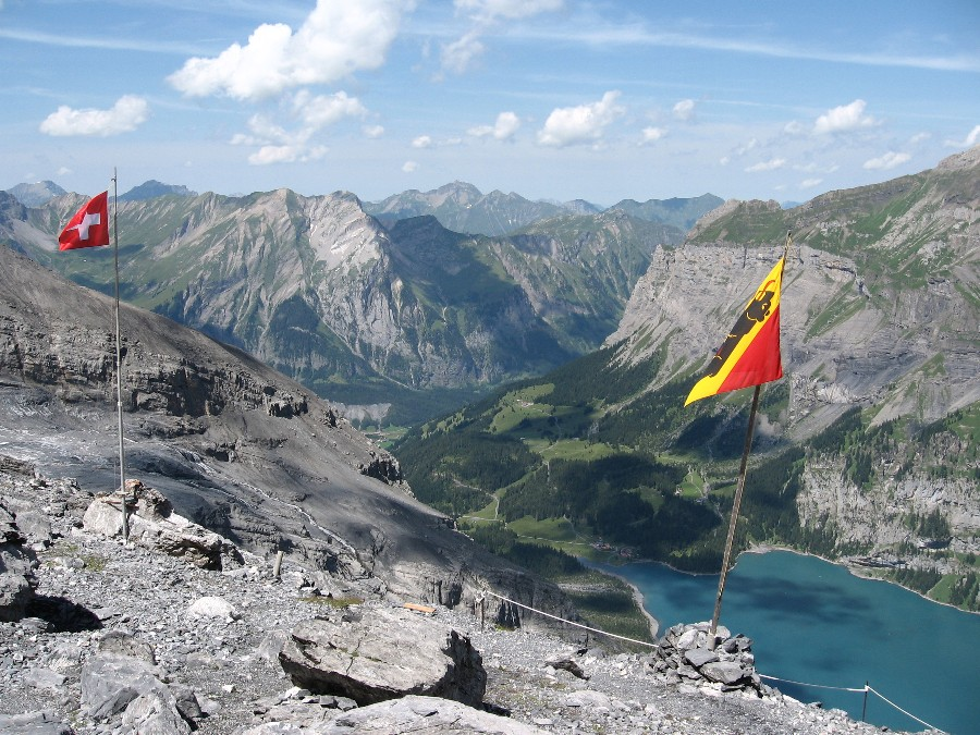 Position is Fründenhütte; view to Northwest overlooking Oeschinensee and the valley leading west to Kandersteg, which is lying in the main valley running south to north. Mountain opposite the end of the valley with the twin peak is First